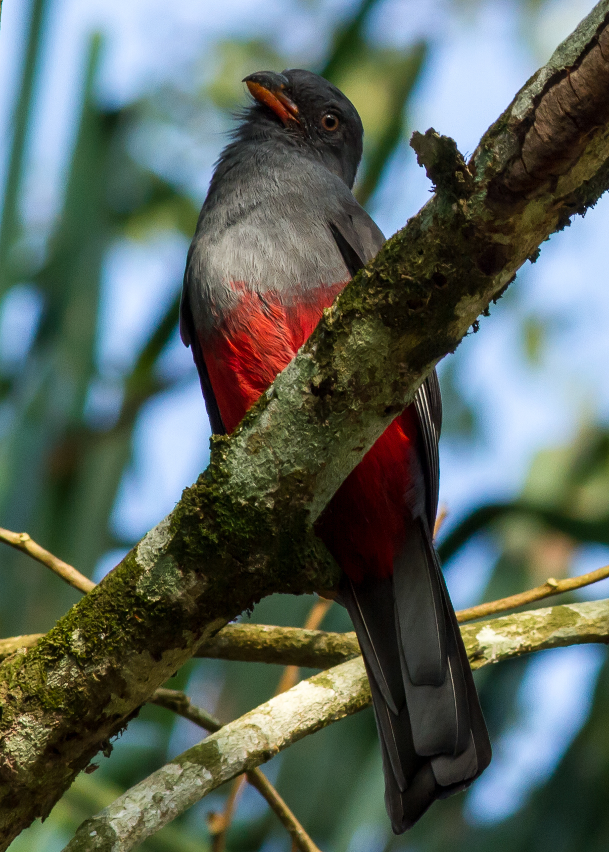 Male of Slaty-tailed Trogon (Trogon massena)